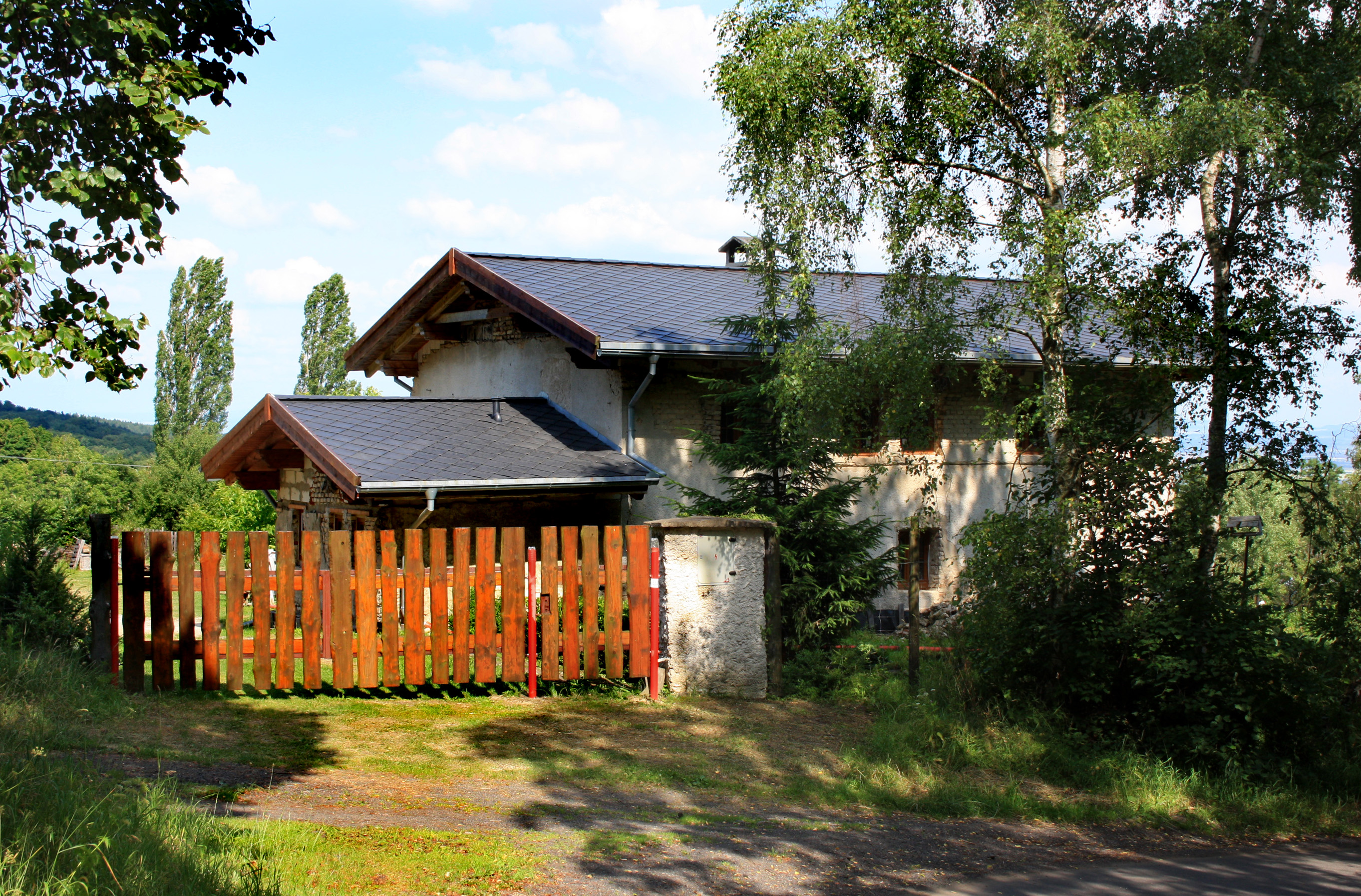 West part of Hrádečná, part of Blatno, Czech Republic